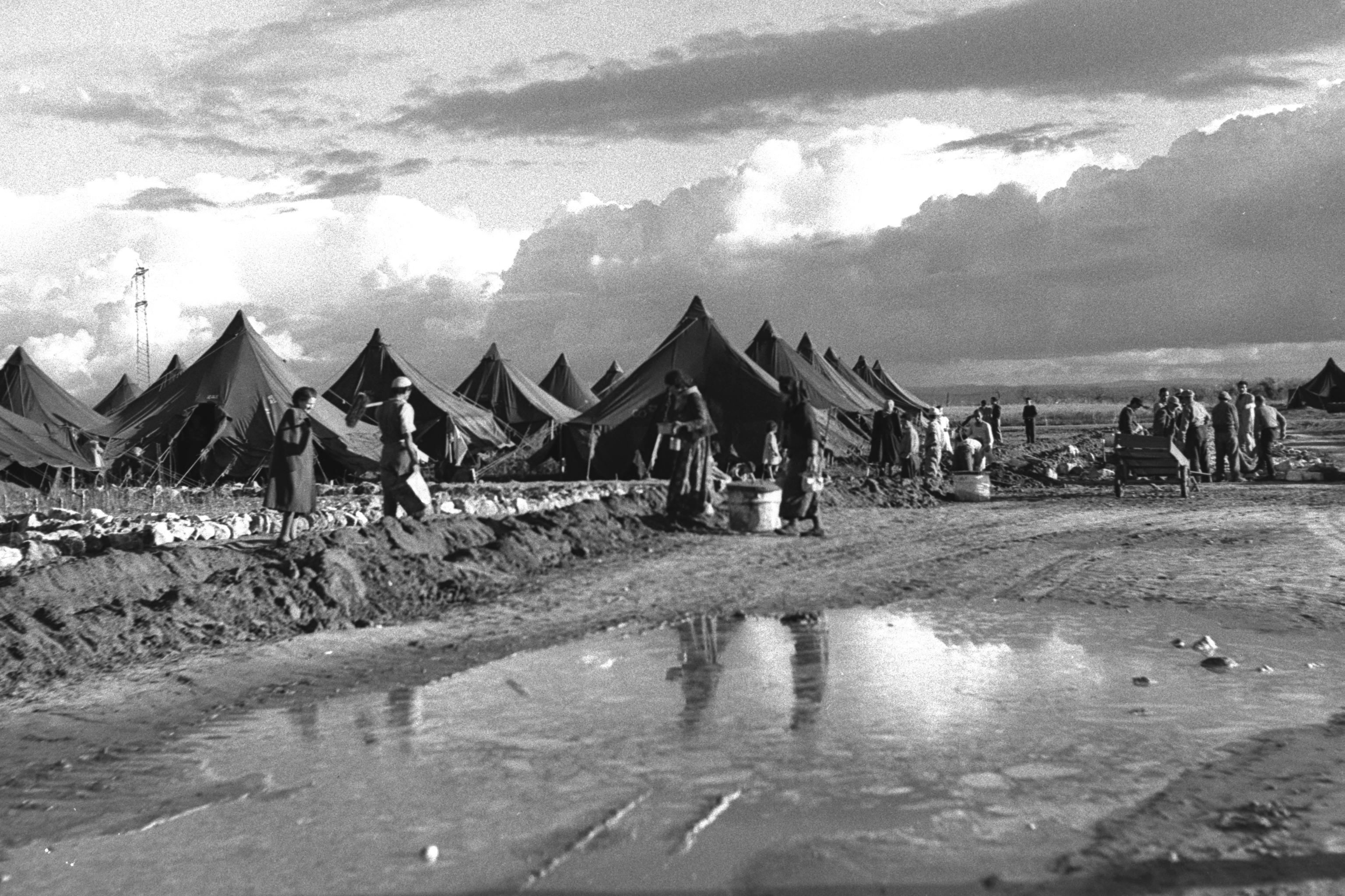 Original Description: TENTS AT PARDES HANNA MA'ABARA (Jewish refugees camp in Israel).